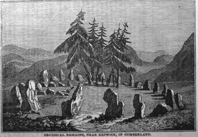 'Druidical remains, near Keswick, Cumberland' 'THE Druidical Circle, represented in the accompanying plate, is to be found on the summit of a bold and commanding eminence called Castle-Rigg, about a mile and a half on the old road, leading from Keswick, over the hills to Penrith,—a situation so wild, vast, and beautiful, that one cannot, perhaps, find better terms to convey an idea of it than by adopting the language of a celebrated female writer, (Mrs. Radclifle,) who, travelling over the same ground years ago, thus described the scene: " Whether our judgment," she says, " was influenced by the authority of a Druid's choice, or that the place itself commanded the opinion, we thought this situation the most severely grand of any hitherto passed. There is, perhaps, not a single object in the scene that interrupts the solemn tone of feeling impressed by its general character of profound solitude, greatness, and awful wildness. Castle-Rigg is the centre point of three valleys that dart immediately under it from the eye, and whose mountains form part of an amphitheatre, which is completed by those of Borrowdale on the west, and by the precipices of Skiddaw and Saddleback, close on the north. The hue which pervades all these mountains is that of dark heath or rock; they are thrown into every form and direction that fancy would suggest, and are at that distance which allows all their grandeur to prevail. Such seclusion and sublimity were indeed well suited to the dark and wild mysteries of the Druids."'